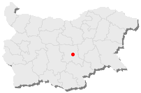 Map of Bulgaria, the red point is the position of Stara_Zagora.